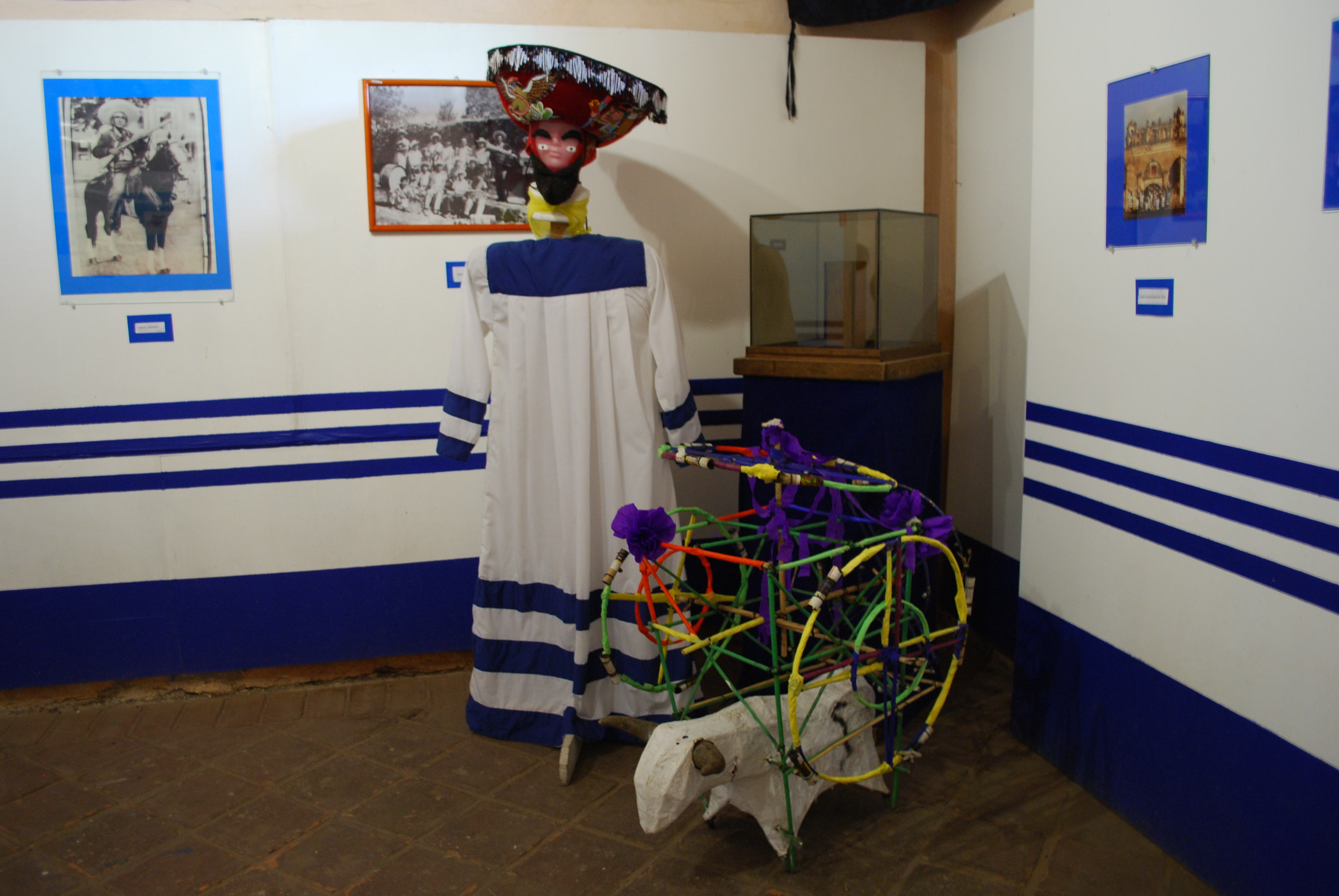 Mannequin dressed as a Chinelo and a "torito" fireworks frame in the La Cereria museum in Tlayacapan, Morelos, Mexico